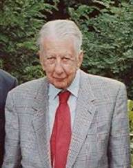 Dutch linguist E.M. Uhlenbeck, at NIAS Wassenaar 2002